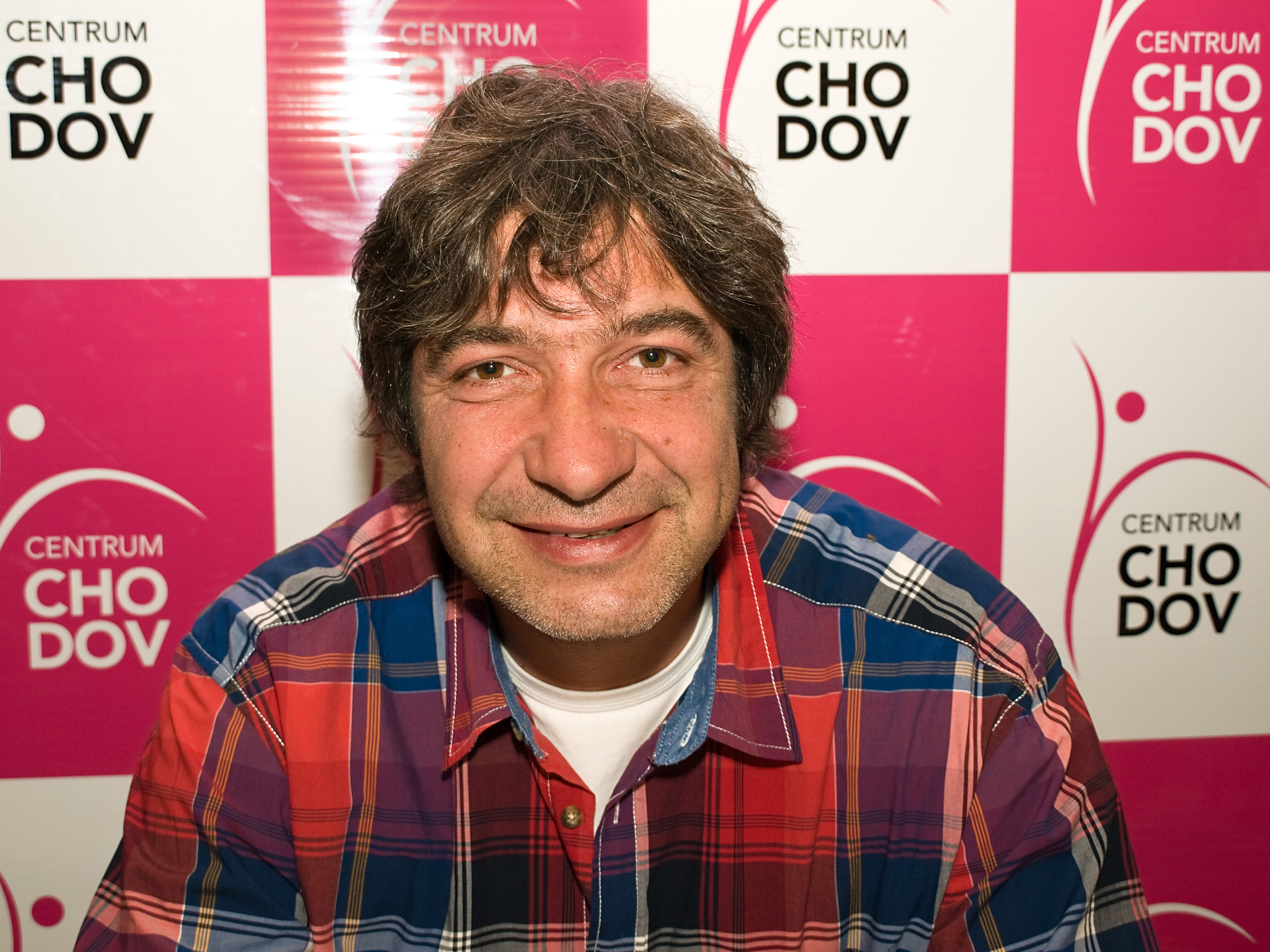 Czech cook Jiří Babica in Prague.